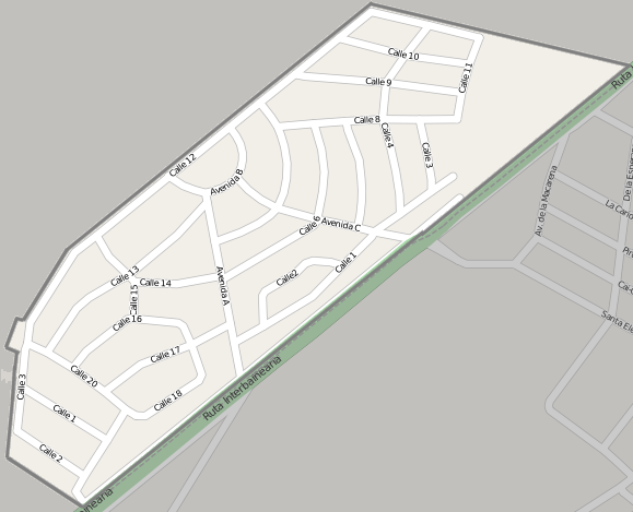 Street map of Colinas de Solymar, resort of the Ciudad de la Costa, Canelones Department, Uruguay, exported from OpenStreetMap. I added shading to delimit the resort. This map may be incomplete, and may contain errors. Don't rely solely on it for navigation.